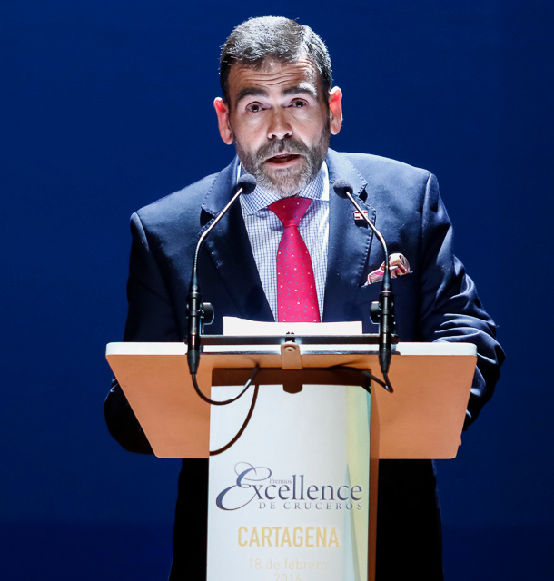 José López Martínez, mayor of Cartagena (Spain), during the ceremony of the 9th edition of the Cruise Excellence Awards.